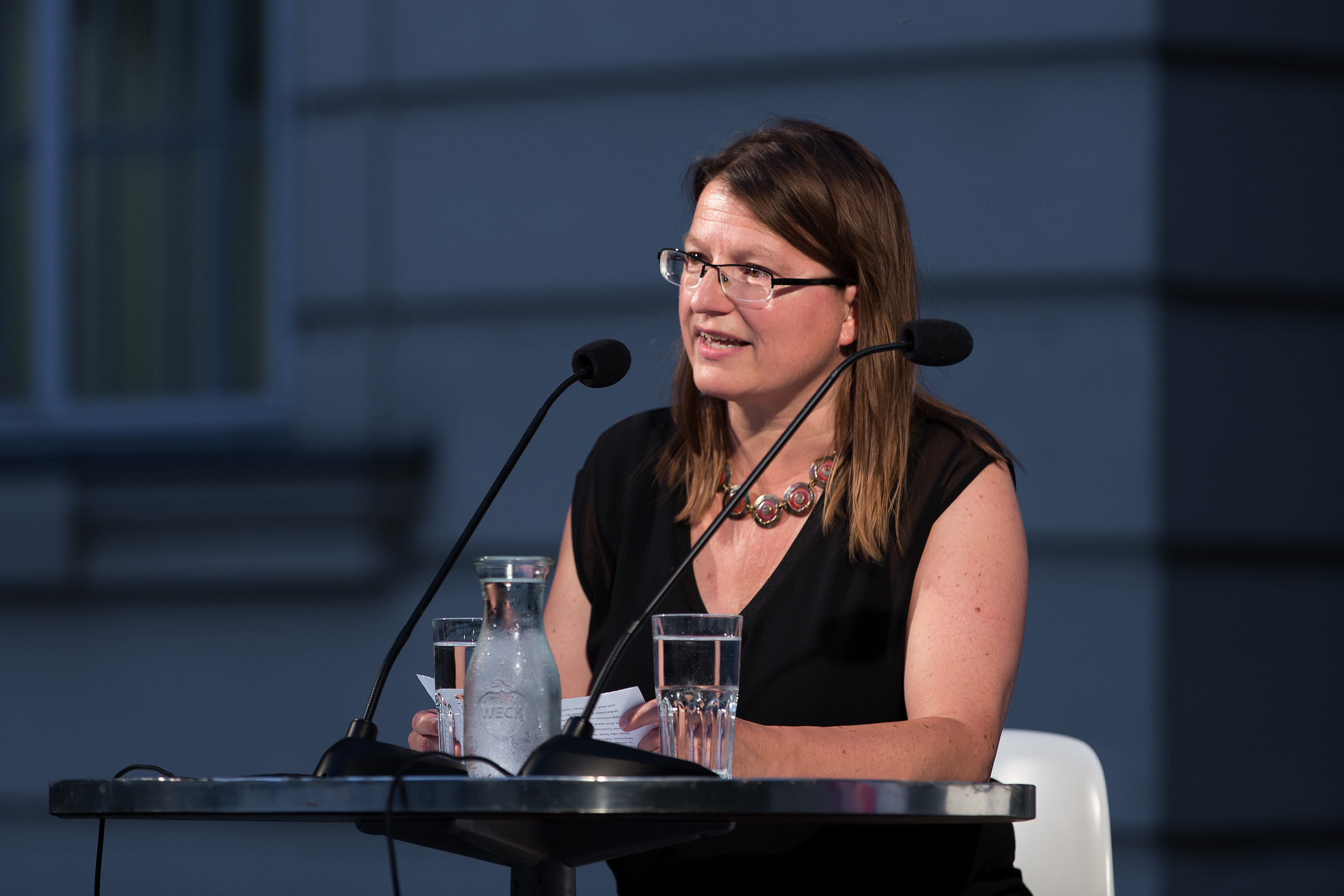 Literary critic Brigitte Schwens-Harrant at the literary festival o-töne 2015 at Museumsquartier in Vienna, Austria.